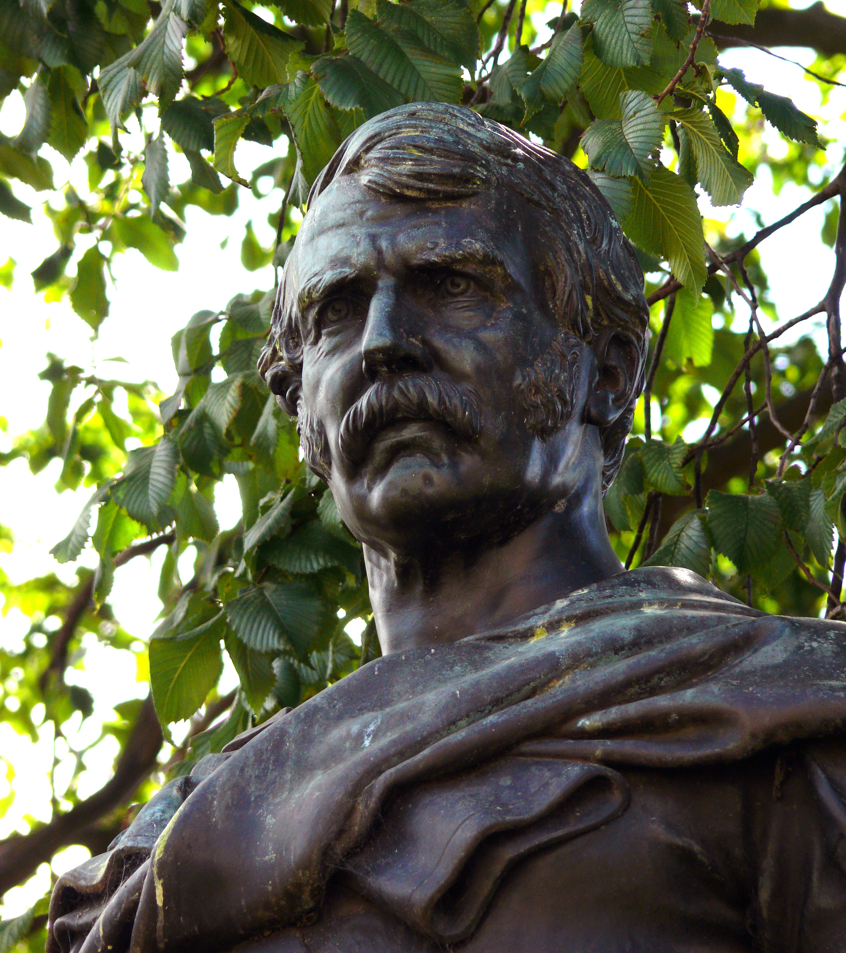 Statue of missionary and explorer David Livingstone[1] (1818-1873) in Princes Street Gardens.